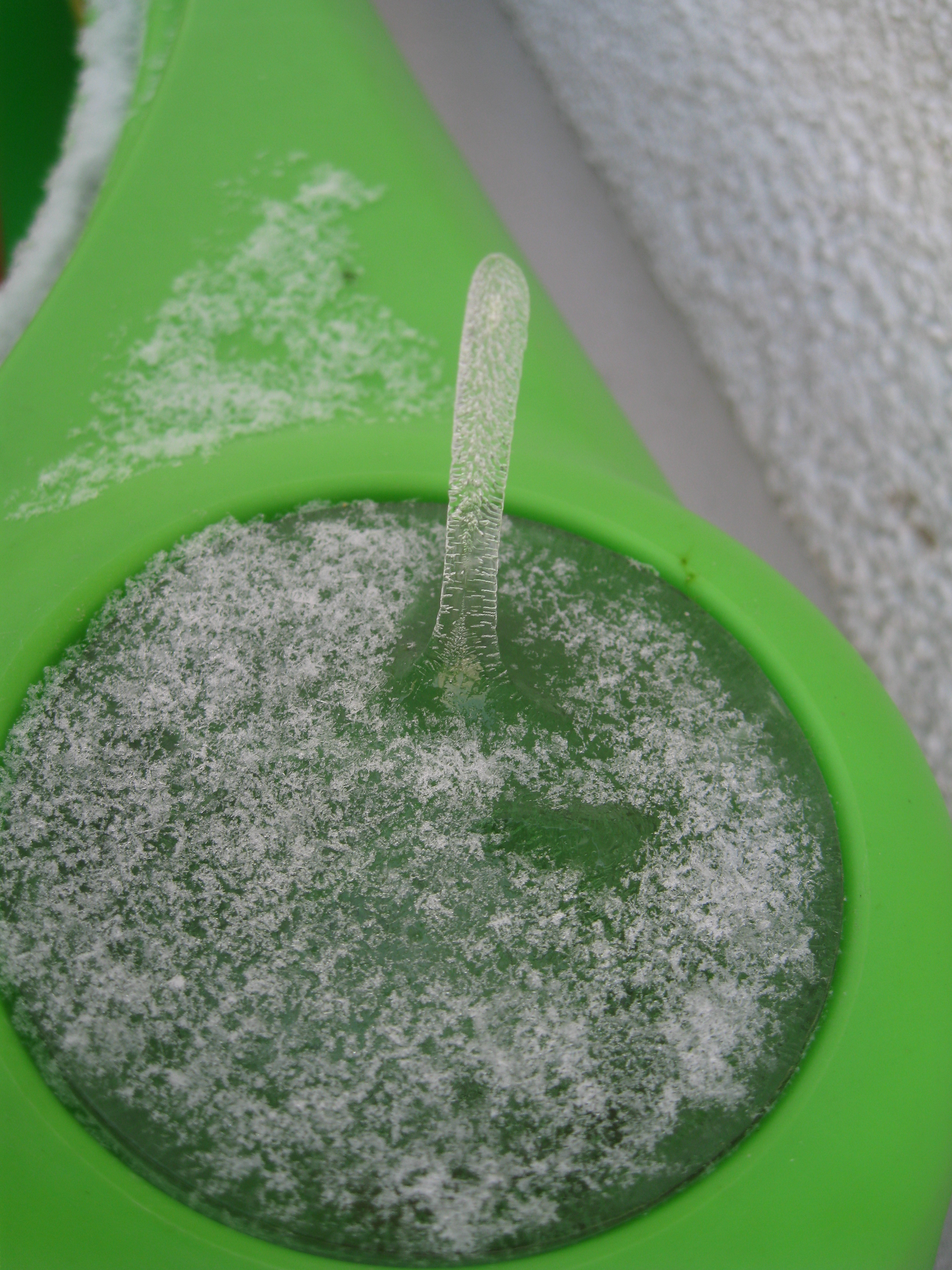 Ice spike grown outdoors in rainwater inside a plastic bucket. About 6-7 cm long.